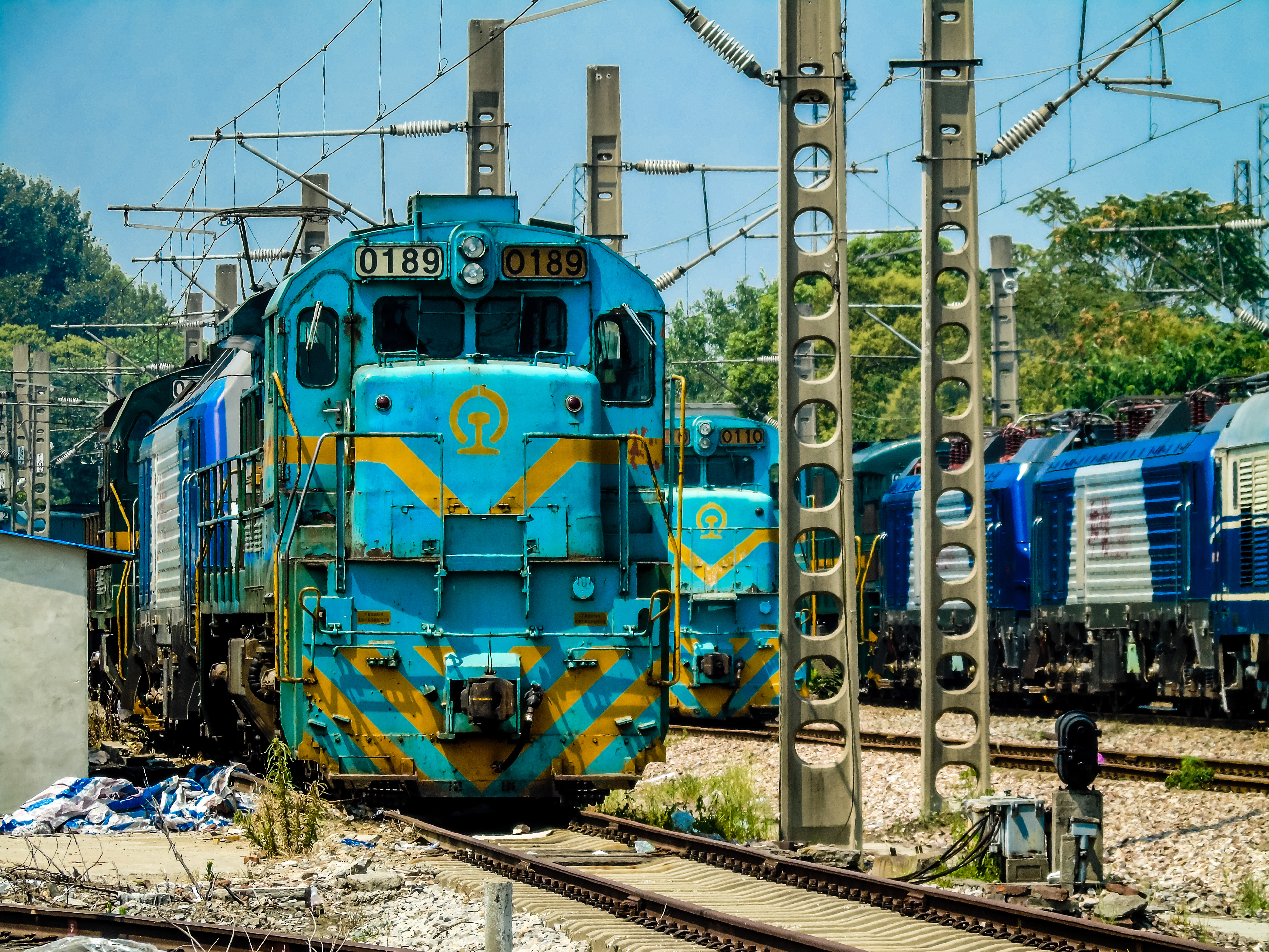 ND5-0189 at Nanjingdong Depot